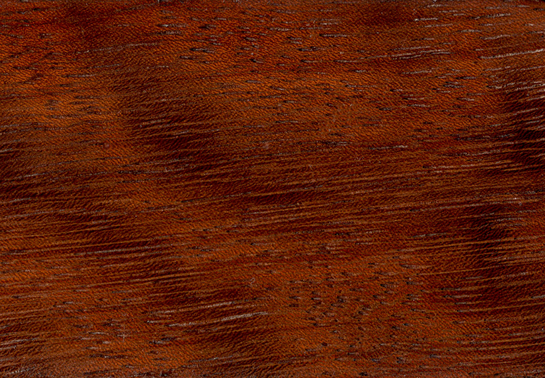 Heartwood of iroko (Milicia excelsa)